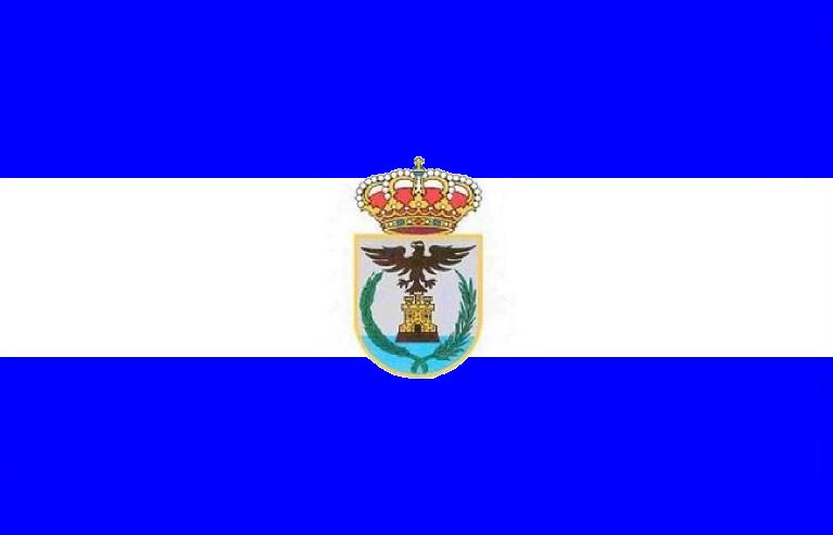 Flag of Águilas - Bandera de Águilas